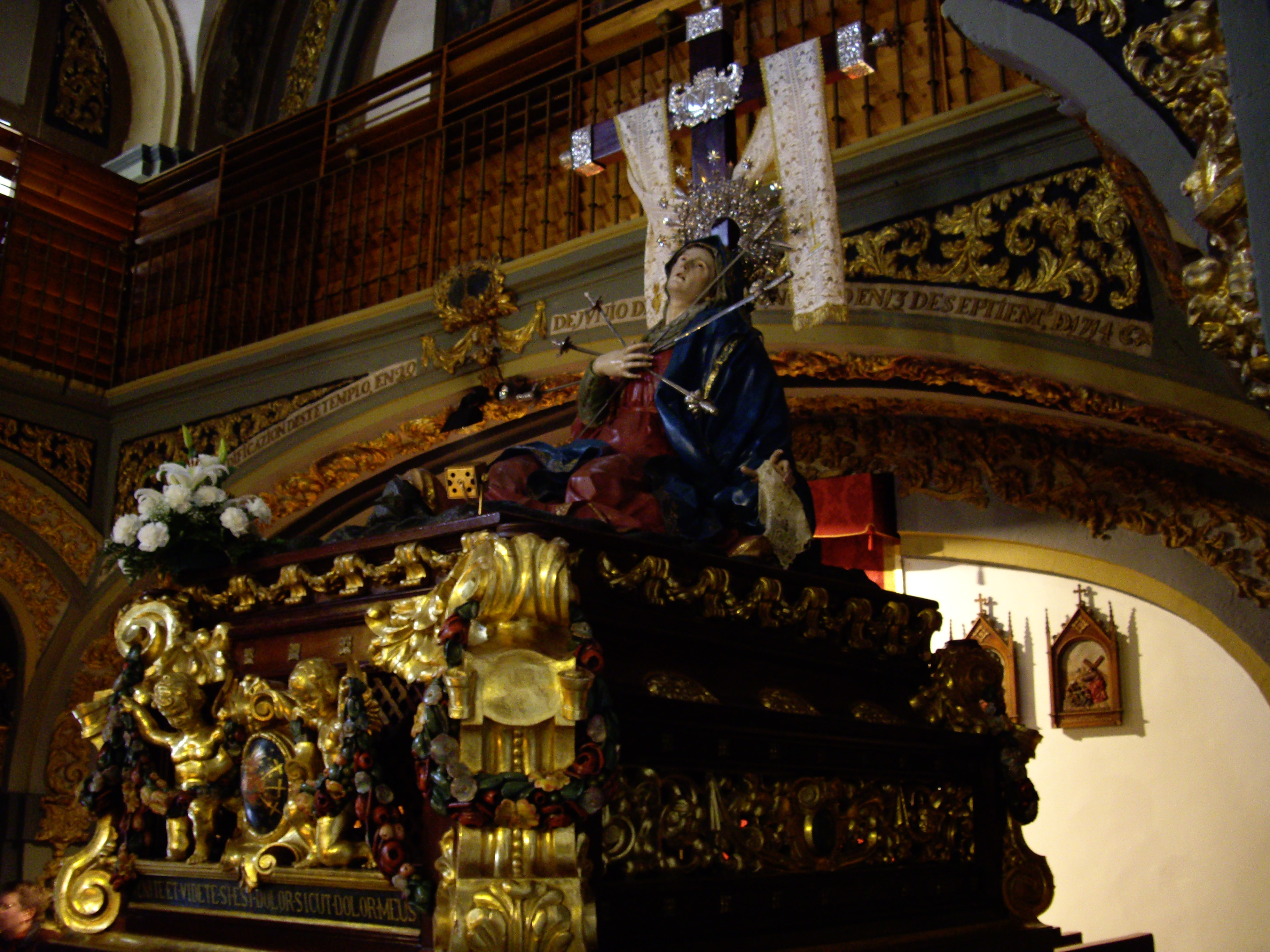 Our Lady of Sorrows, by Felipe del Corral, Church of the True Cross, Salamanca (Spain)